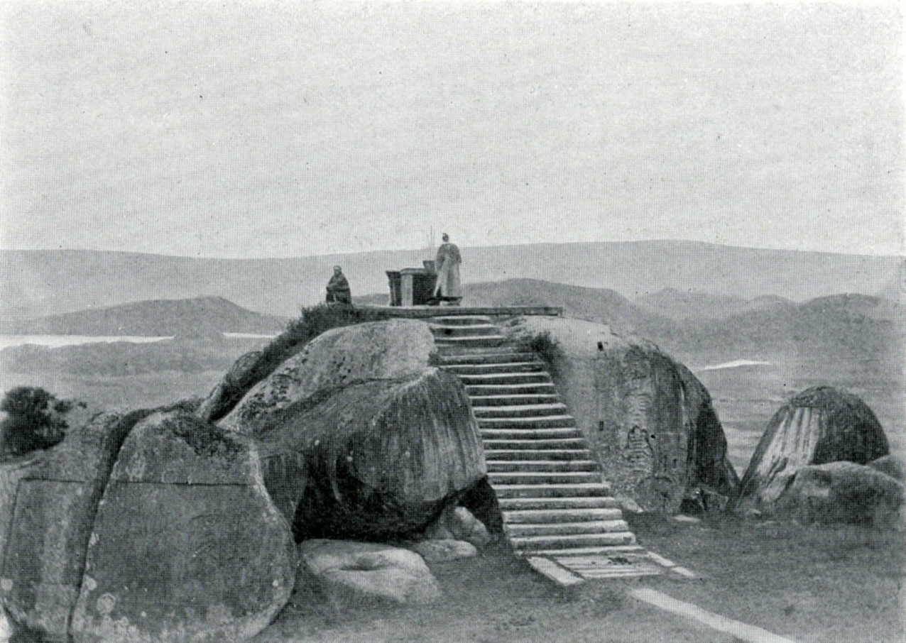 A priest pays his respect at the Tablet (Altar) of Confucius